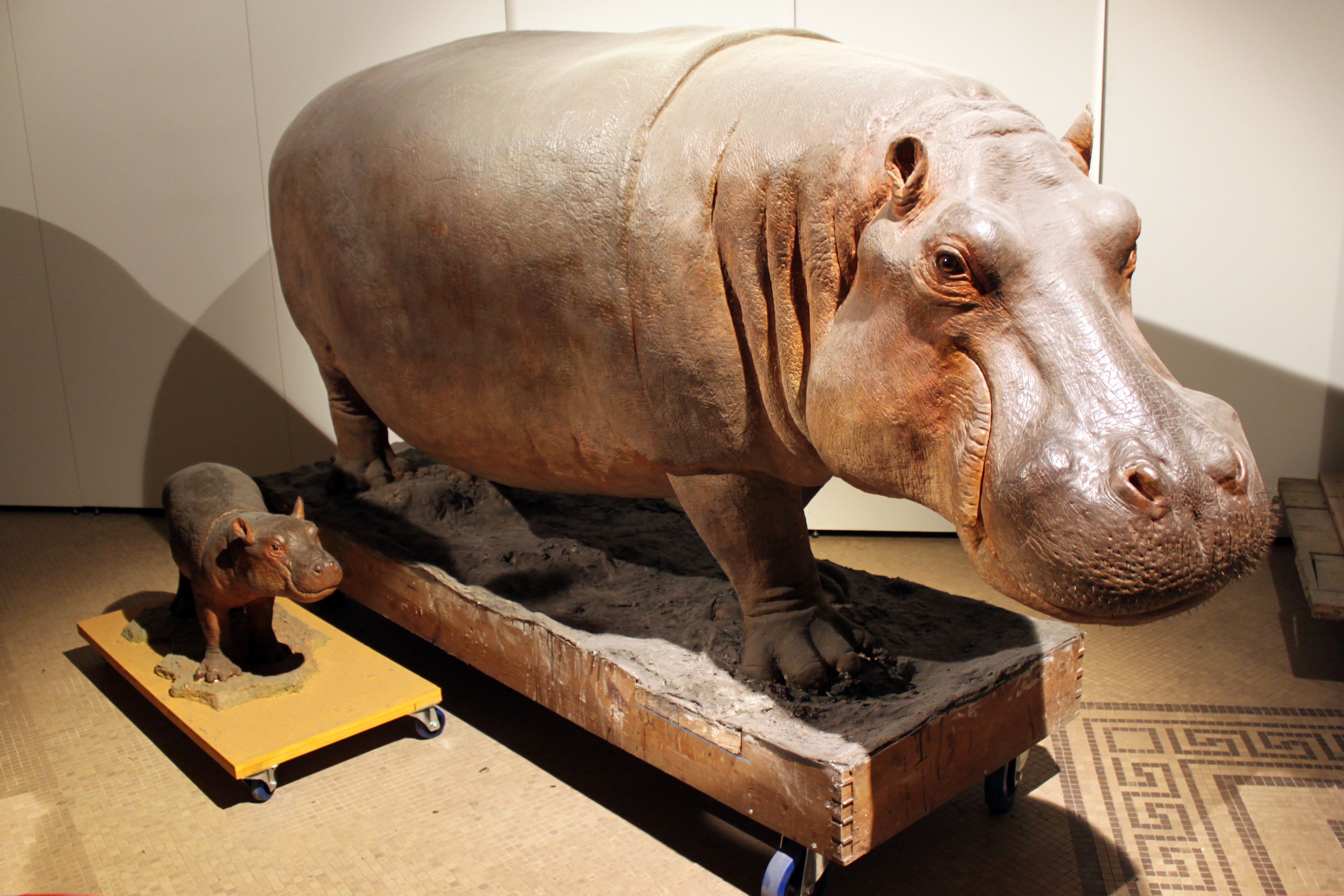 Stuffed Hippos (Hippopotamus amphibius), Museum of Natural History